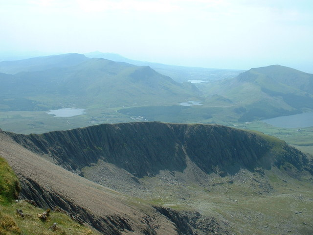 Llechog. Looking west, down the Nantlle valley. Llyn Nantlle Uchaf visible in the distance, and Llyn y Gader centre left.